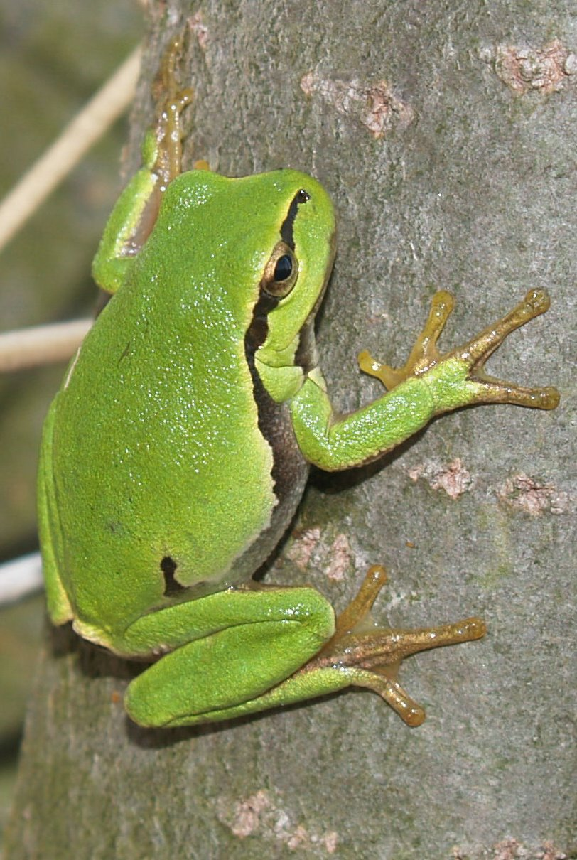 Hyla arborea; Digital photo taken in the beginning of June 2006 in Mazovia (Poland).